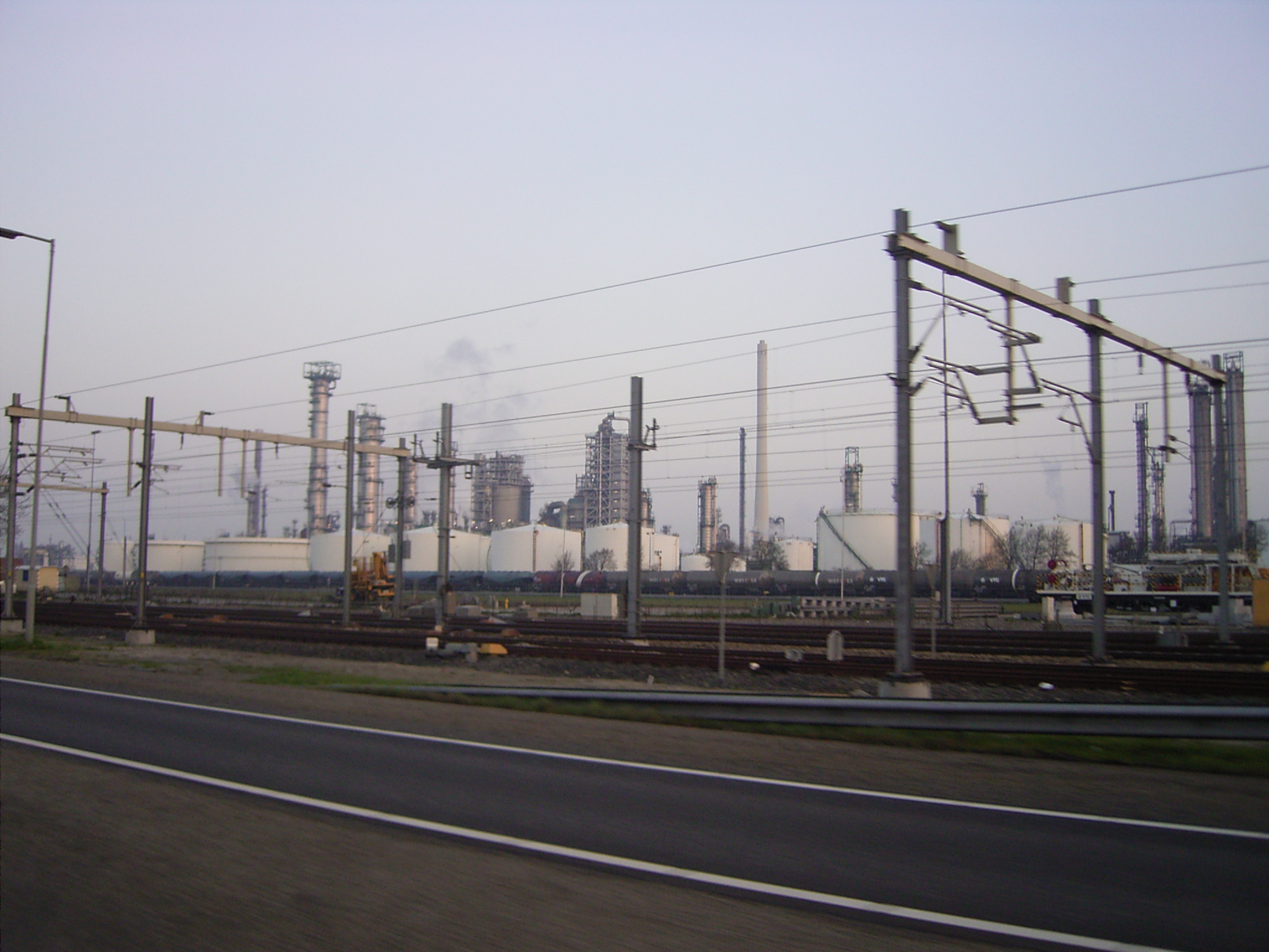 This photograph shows a small part of the refineries or reated industries in the Europoort area in the Netherlands.